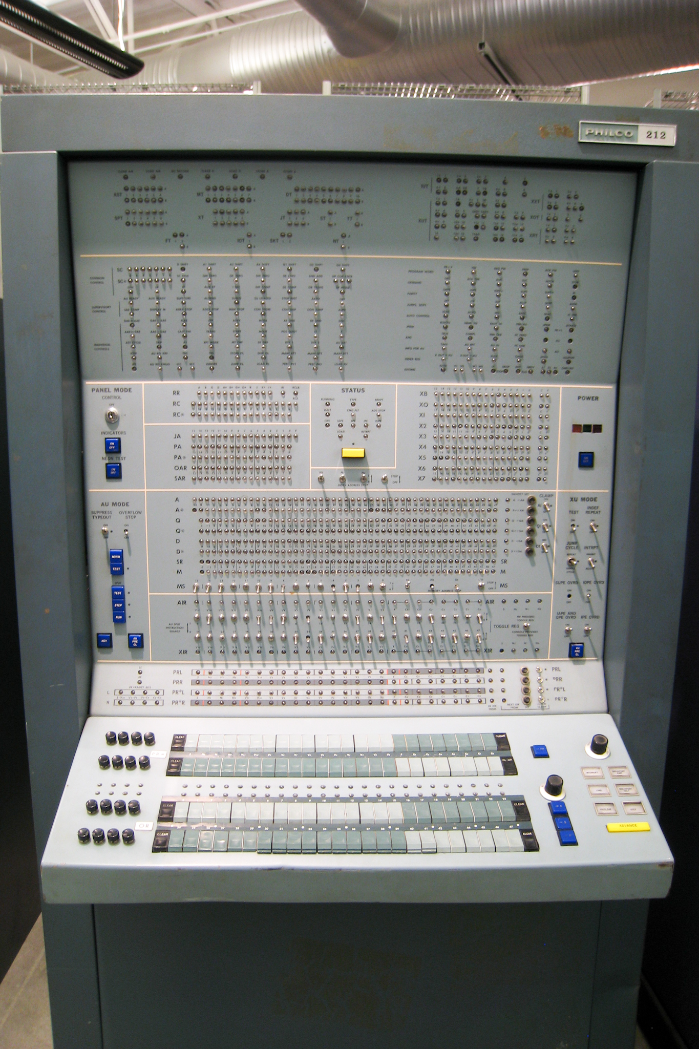 Hey kid, I'm a computer!